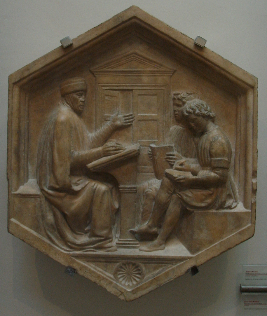 Luca della Robbia, Priscian, or the Grammar (1437-1439). Marble panel from the North side, lower basement of the bell tower of Florence, Italy. Museo dell'Opera del Duomo.